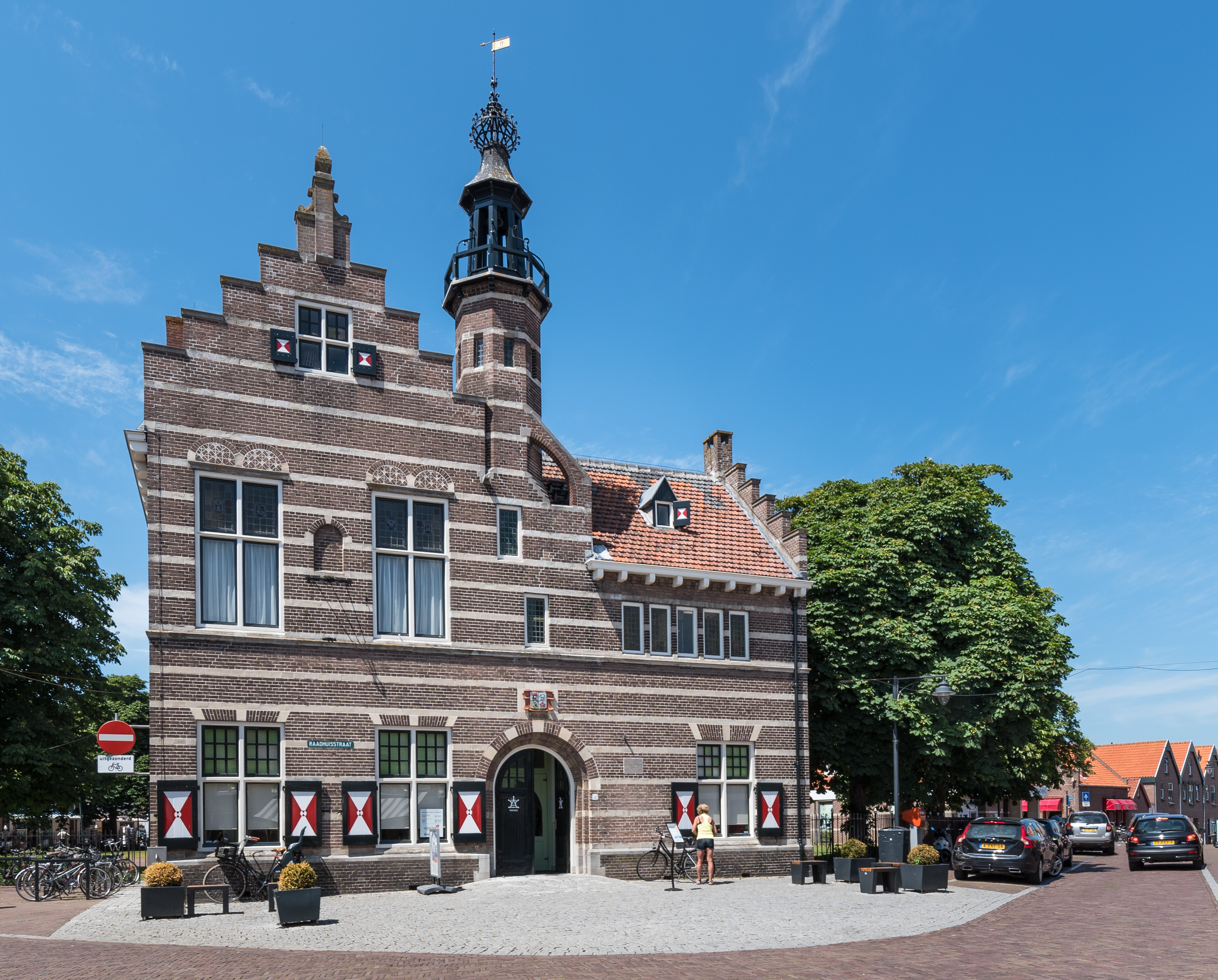 The previous city hall in Ouddorp, The Netherlands. The building is now used for a museum.